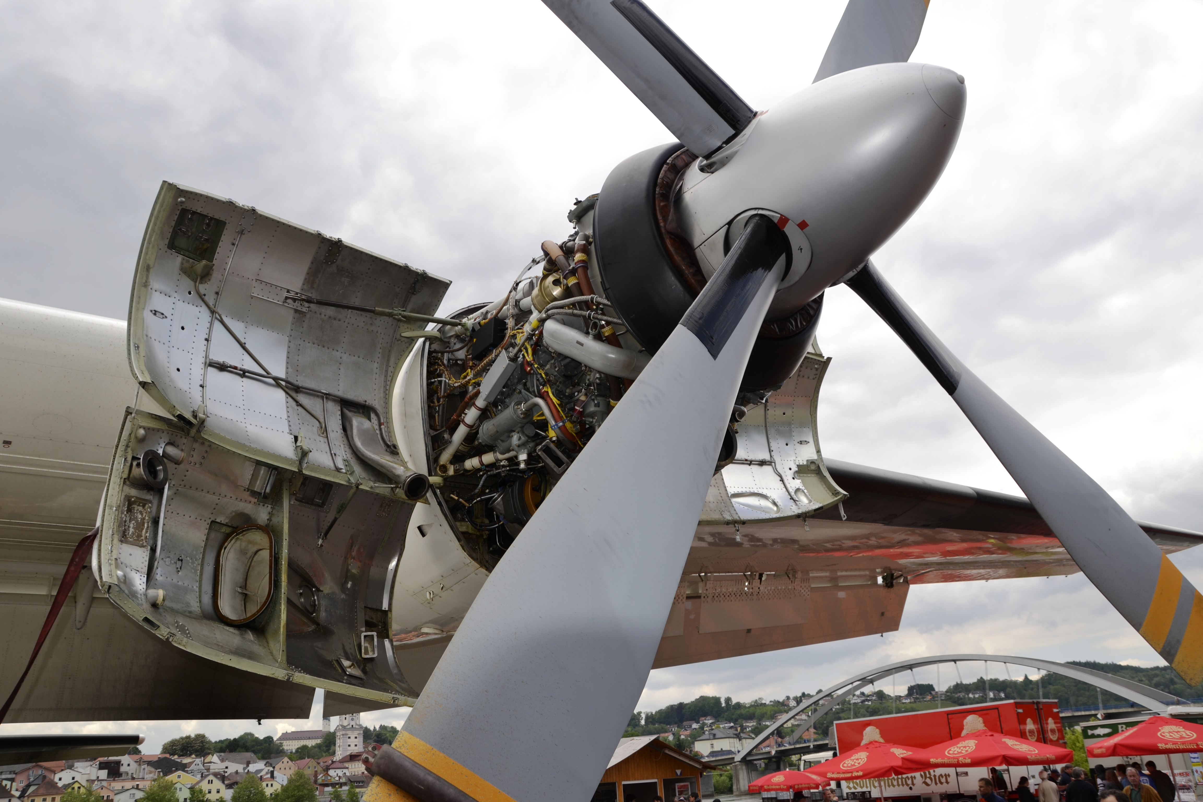 The Rolls-Royce Tyne engine of a Transall C-160 transport aircraft at the air show Flughallenfest Vilshofen 2012.